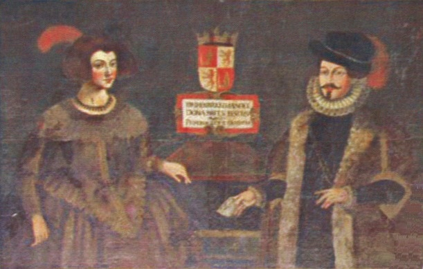 Henrique Manuel de Vilhena, Lord of Cascais, and Brites de Sousa, in a 17th-century painting in the Palace of the Counts of Ficalho, in Serpa, Portugal.